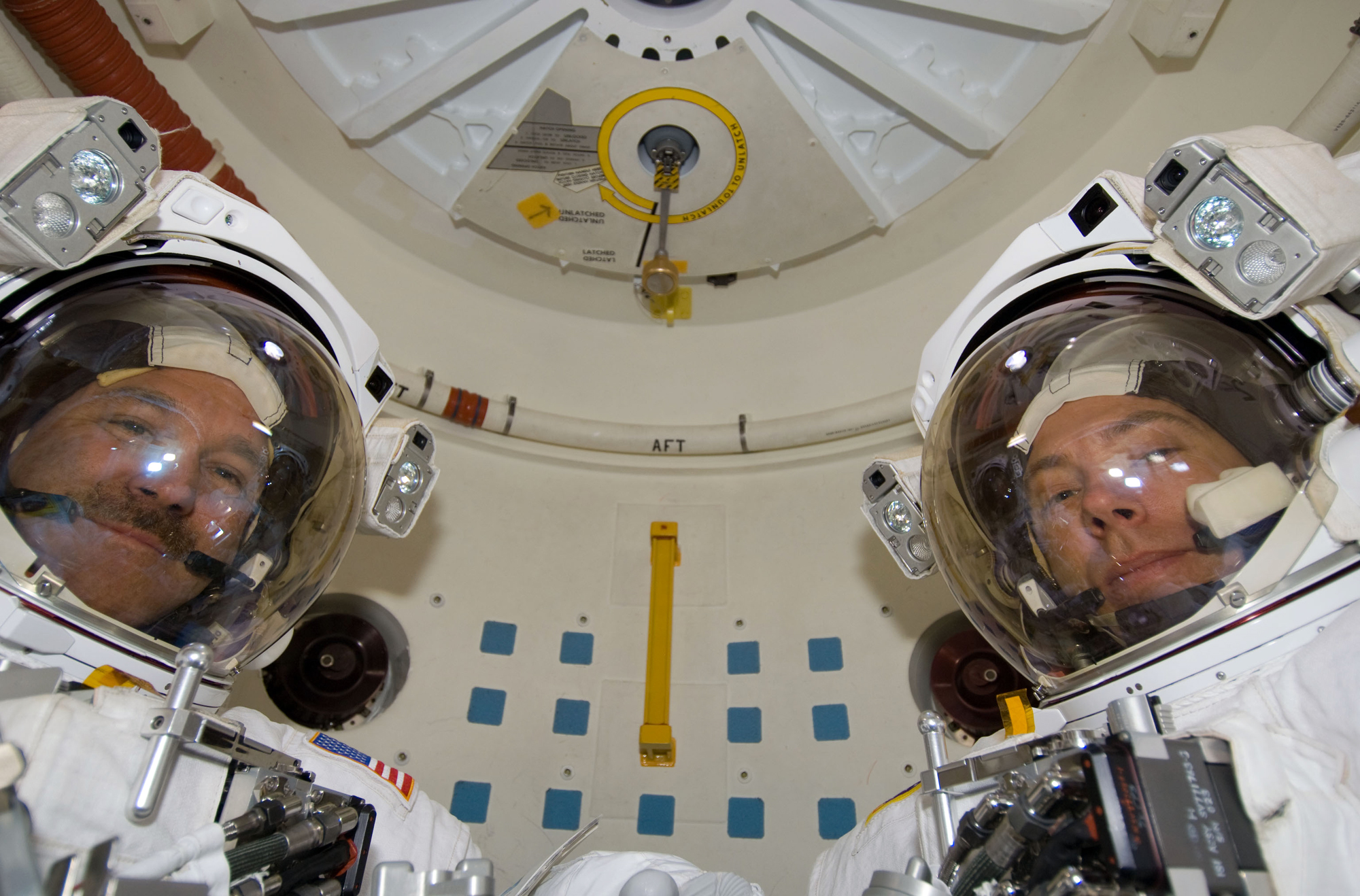 Astronauts John Grunsfeld and Andrew Feustel, both STS-125 mission specialists, attired in their Extravehicular Mobility Unit (EMU) spacesuits, are pictured in the Space Shuttle Atlantis' airlock prior to the start of the mission's third session of extravehicular activity.